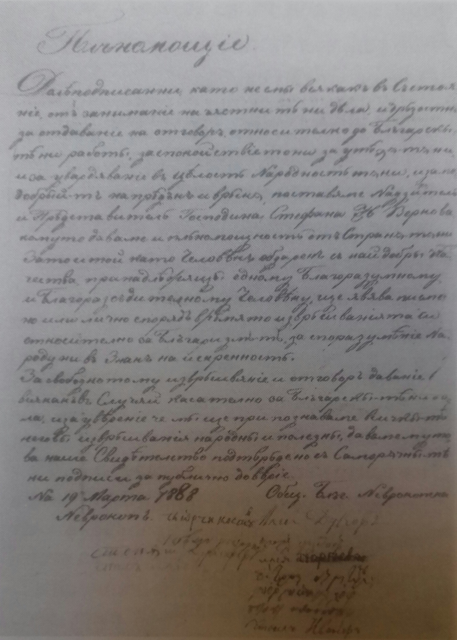 Letter from Nevrokop Bulgarian Municipality to Stefan Verkovic 1883